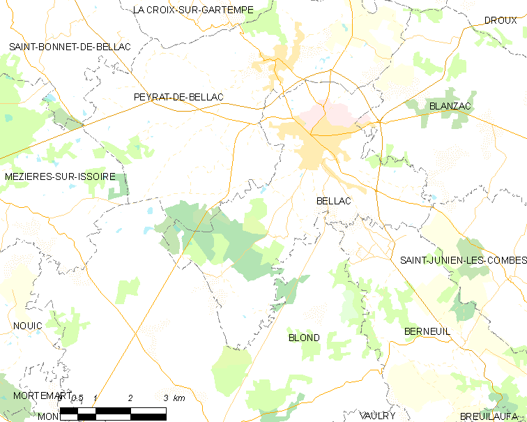 Map of French municipality Bellac